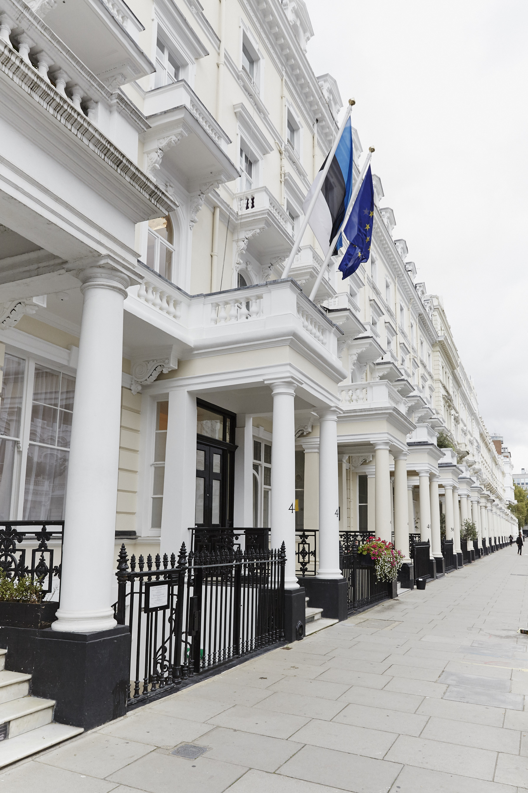 Estonian Embassy in London street view